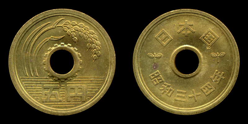 5yen-S34(current coin)